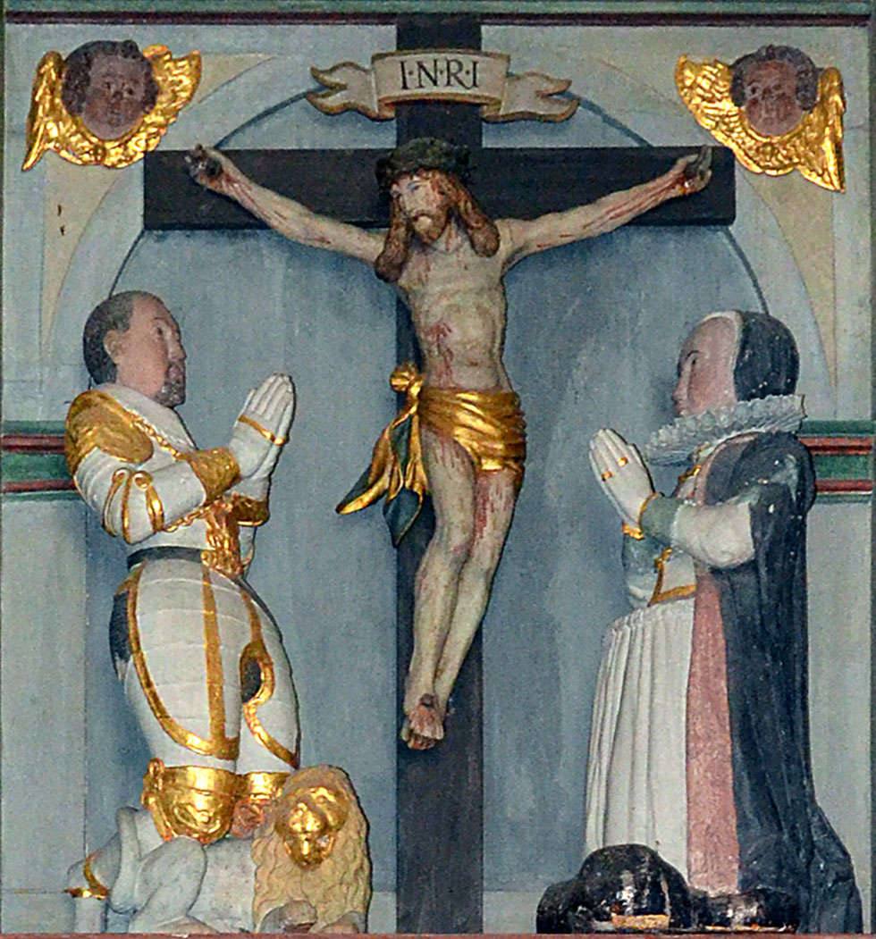 Detail of Epitaph of Bernhard von Bibra and Sibylle von Witzleben